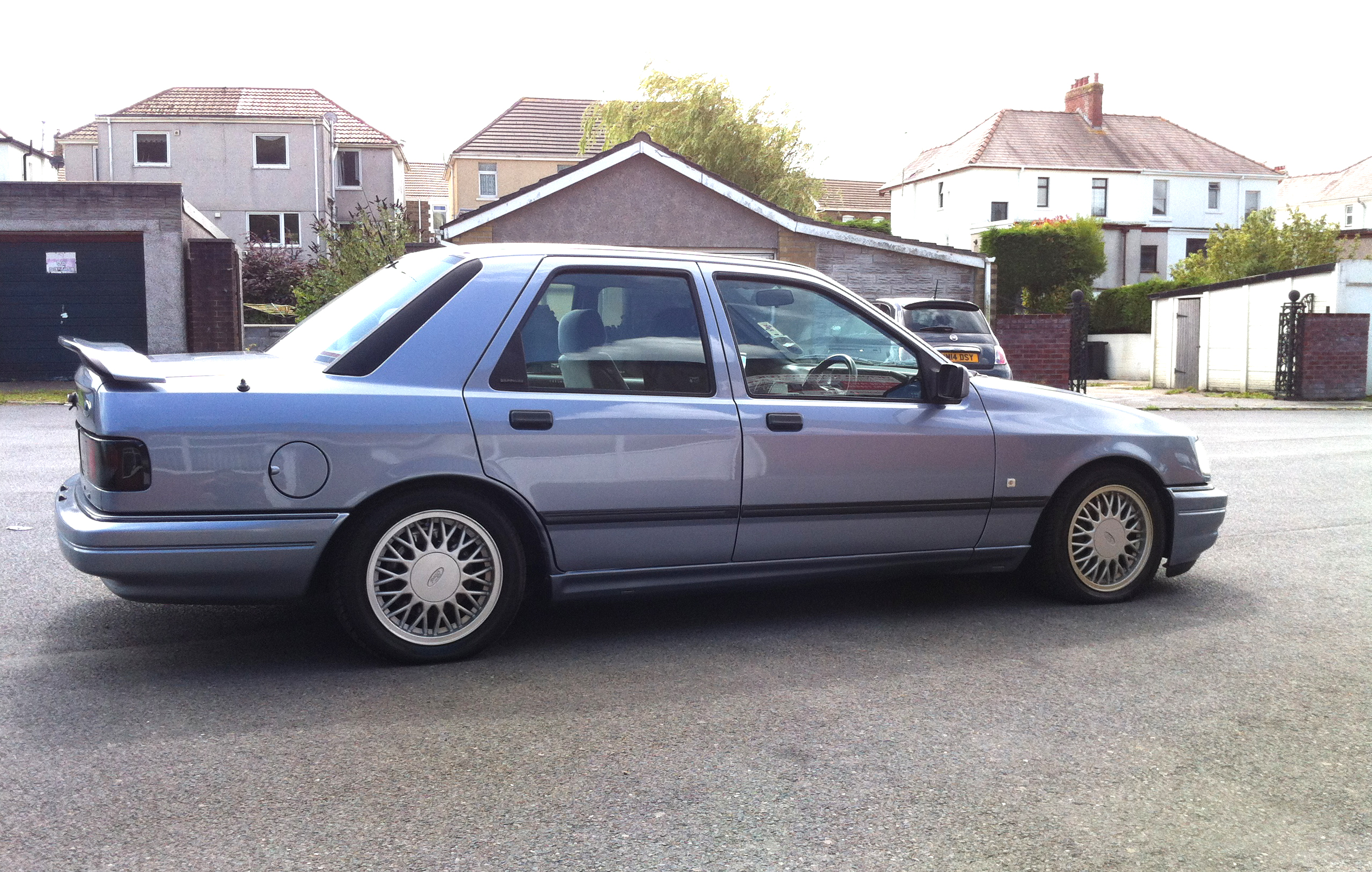 Ford Sierra (Sapphire) RS Cosworth 2WD (with 4x4 'snowflake' alloys)